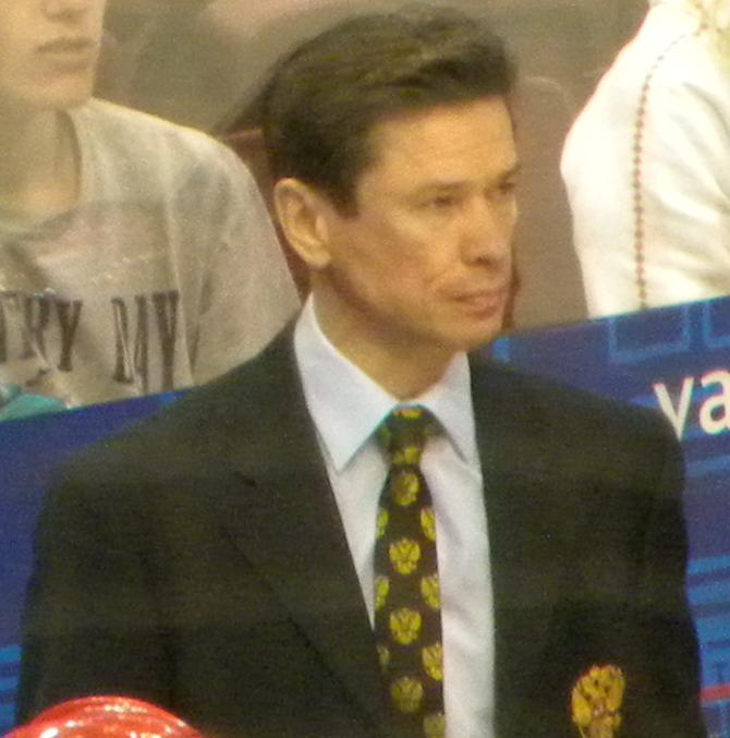 Vyacheslav Bykov, head coach of the Russia men's national ice hockey team, during a match against Latvia men's national ice hockey team in the 2010 Winter Olympics at Canada Hockey Place on February 16, 2010.